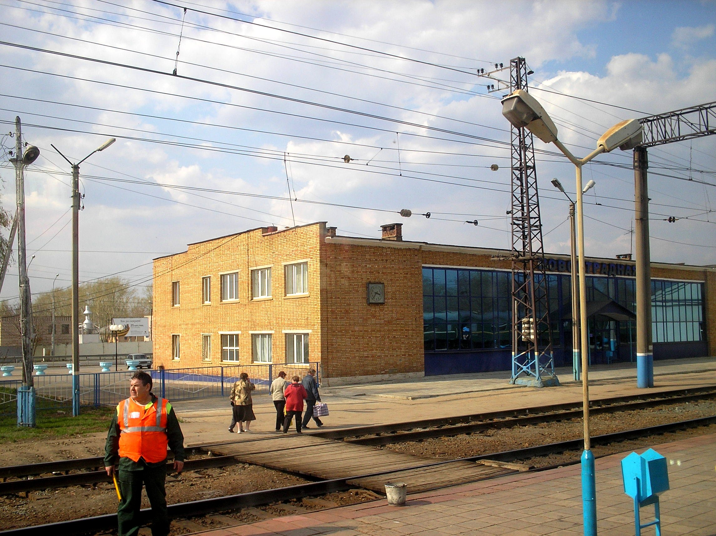 Novootradnaya railway station in Samara Oblast, view from the train window